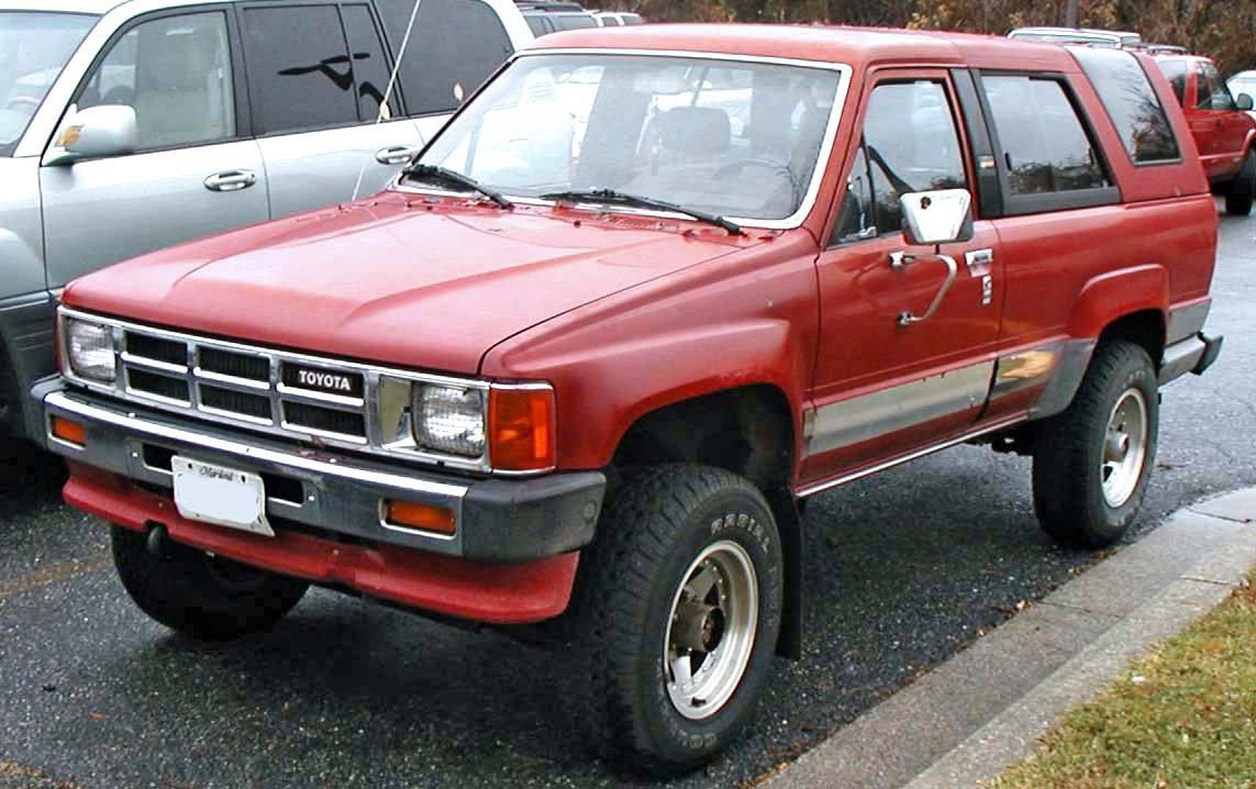 1984-1986 Toyota 4Runner photographed in USA.